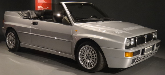 Lancia Delta Evo Spider - Museo Nazionale Dell'Automobile - Torino, Italy. Only one made, for Gianni Agnelli (1921–2003), president of Fiat. On display summer 2013 (with other Agnelli vehicles) to mark the 10 years since his passing.